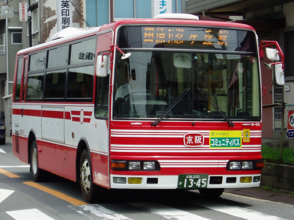 Mitsubishi Aeromidi MK Onestep for Keihan-Bus,use for "Shijonawate-Communitybus" cae number W-1096 usual using